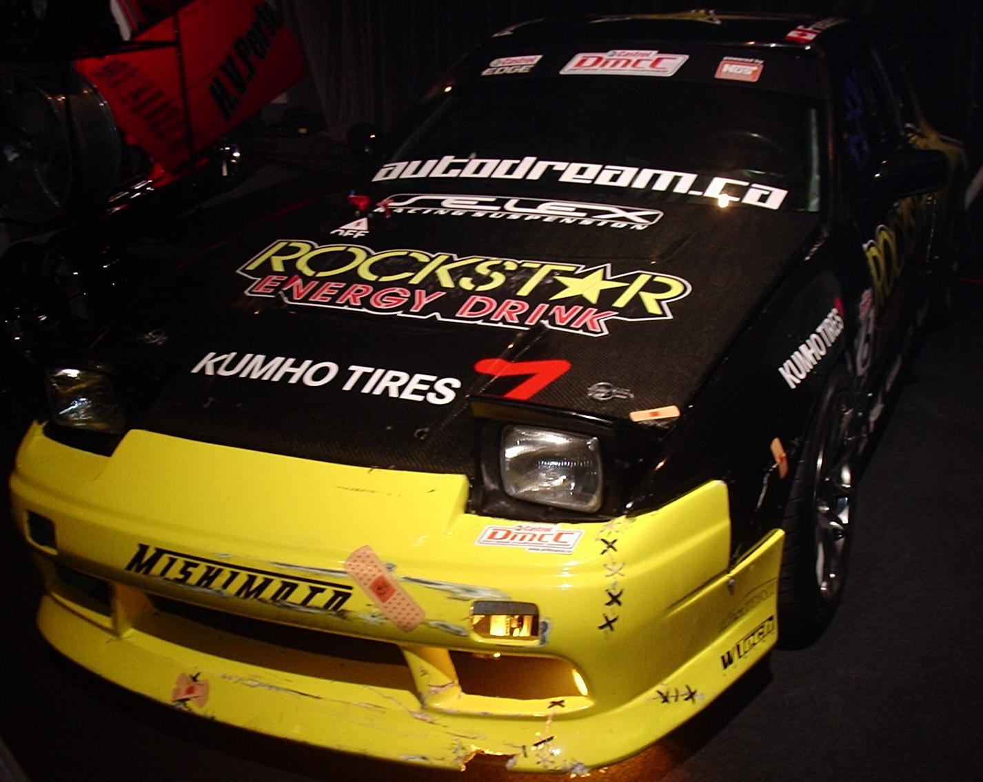 Nissan 240SX photographed in Montreal, Quebec, Canada at the 2011 Montreal International Auto Show.